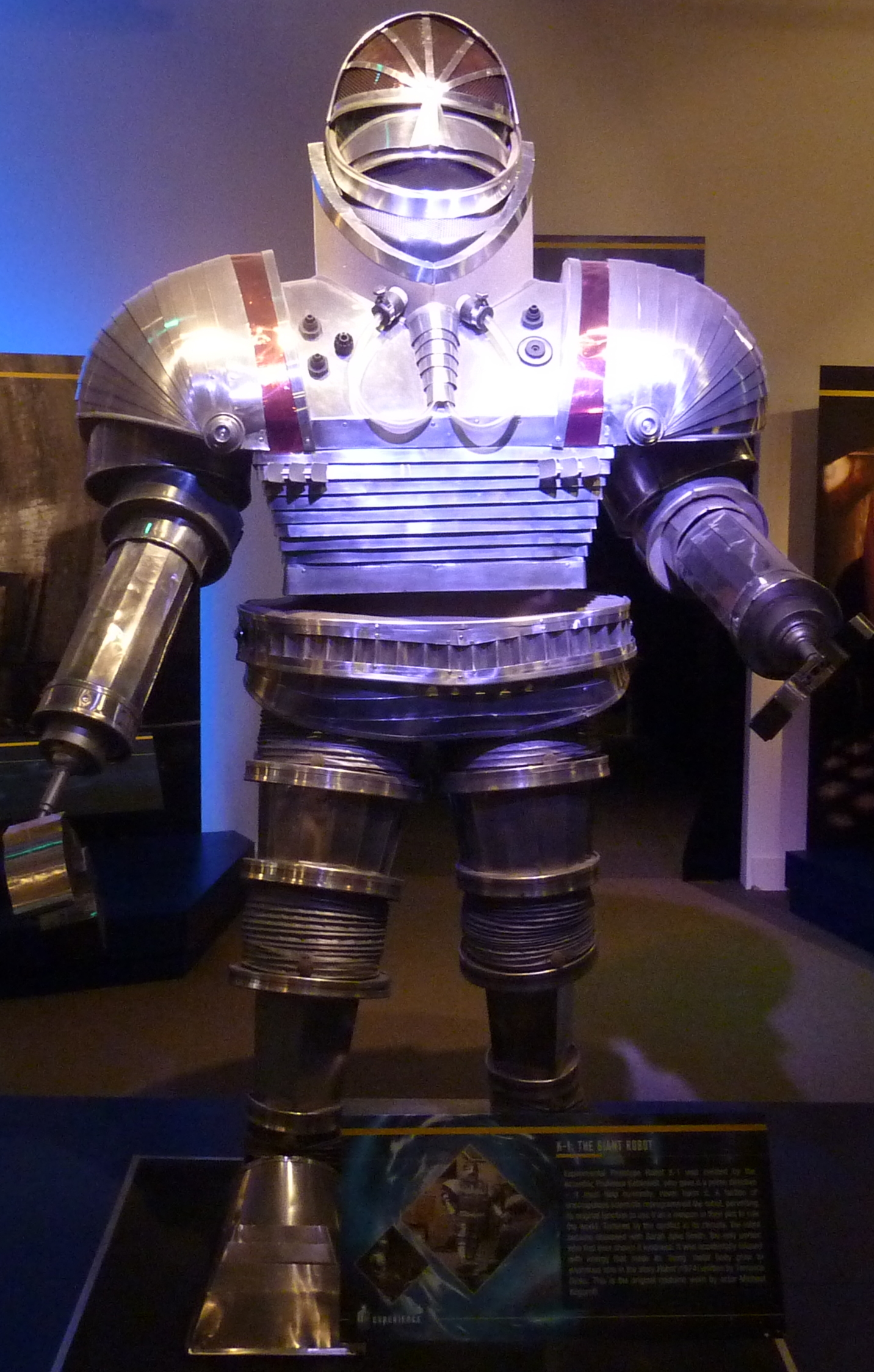 Doctor Who Experience London Olympia Doctor Who Experience